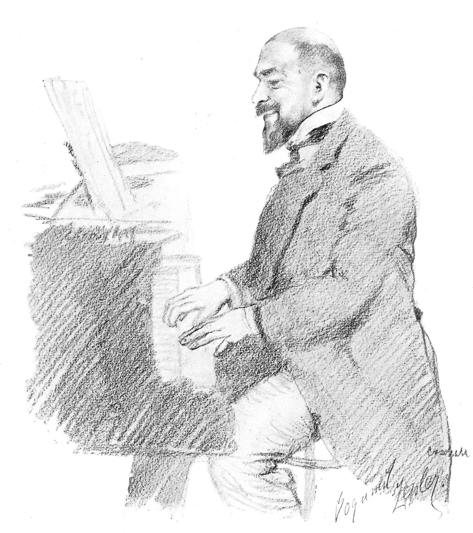 Operette Composer Bogumil Zepler on the piano in a Cabaret, Berlin, Sketch by Moritz Coschell, Le Figaro illustré, 1907